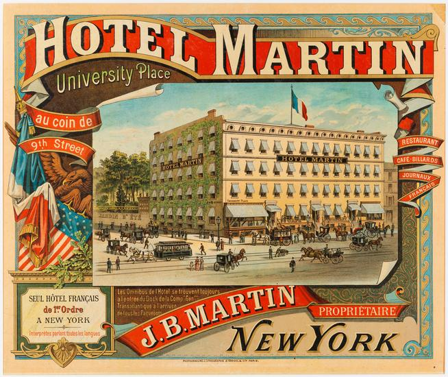 Advertisement for Hotel Martin on University Place and 9th Street, New York City. The hotel was later known as Hotel Lafayette. Although the Museum of the City of New York gives the date as c. 1884, the hotel (previously called Hotel de Panama) did not change its name to Hotel Martin until 1886.